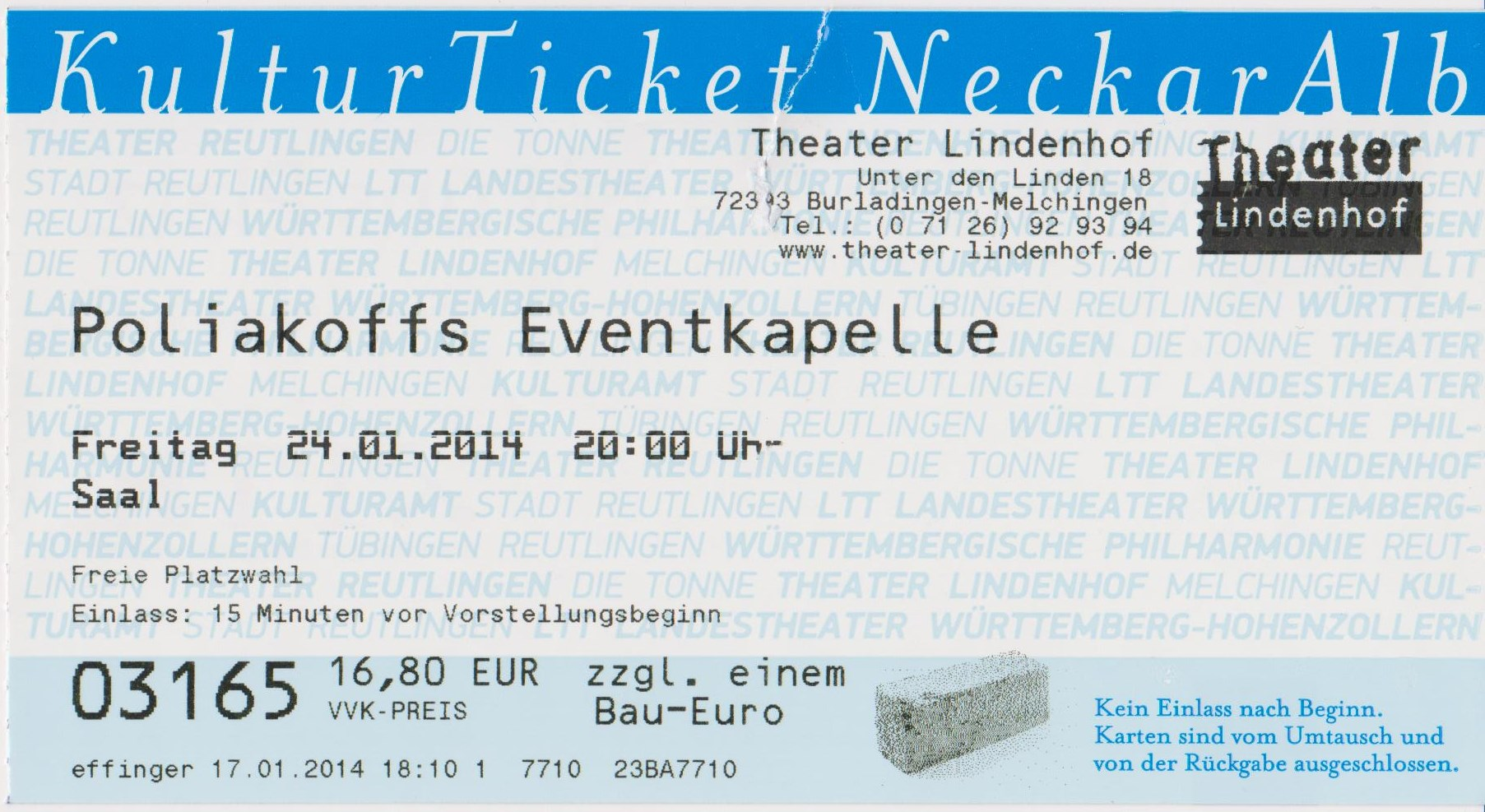 Germany - Baden-Württemberg - Zollernalbkreis - Burladingen - Melchingen: entrance ticket "Theater Lindenhof"